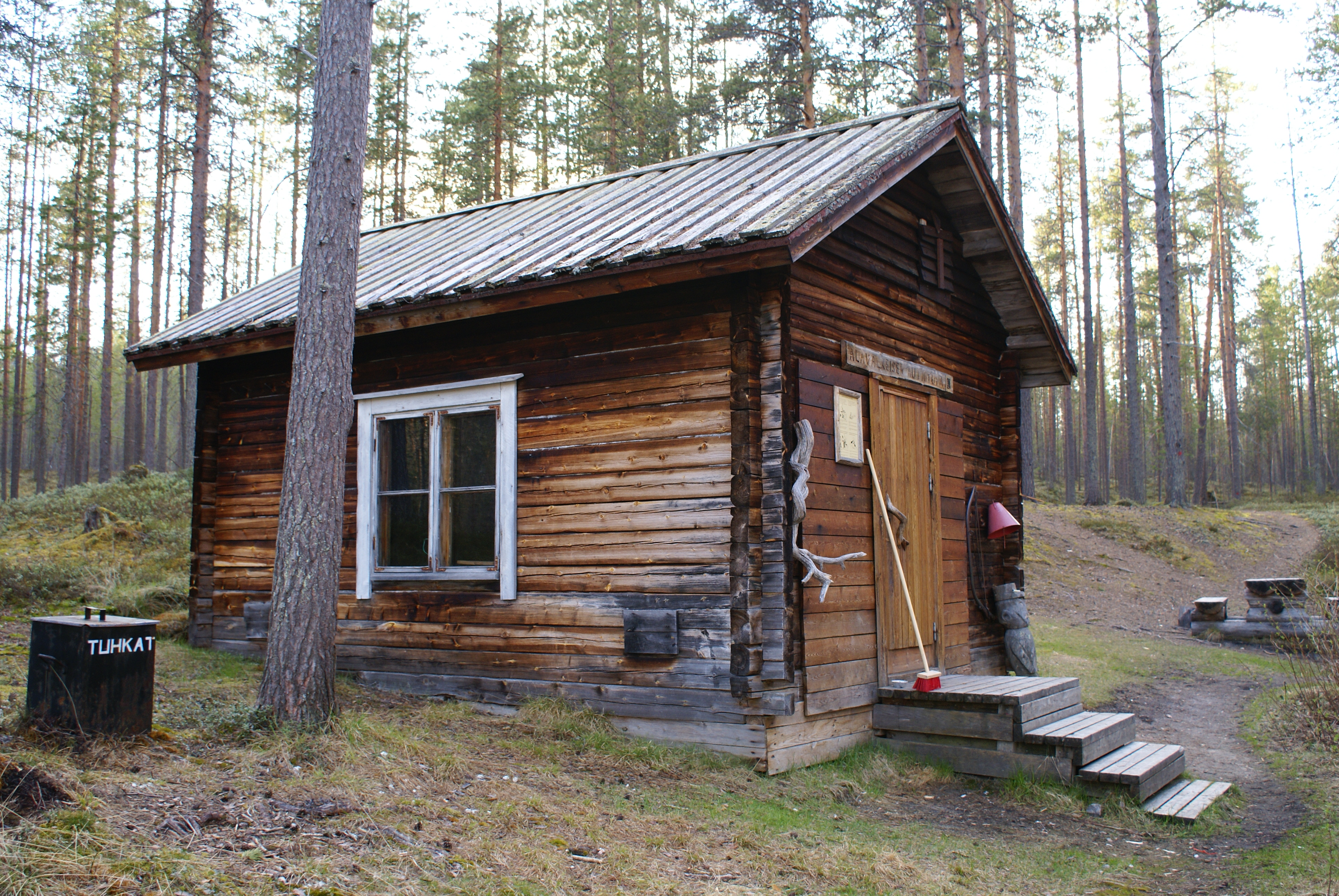 Alavalkeinen wilderness hut in the Hossa Hiking Area, in Suomussalmi, Finland.